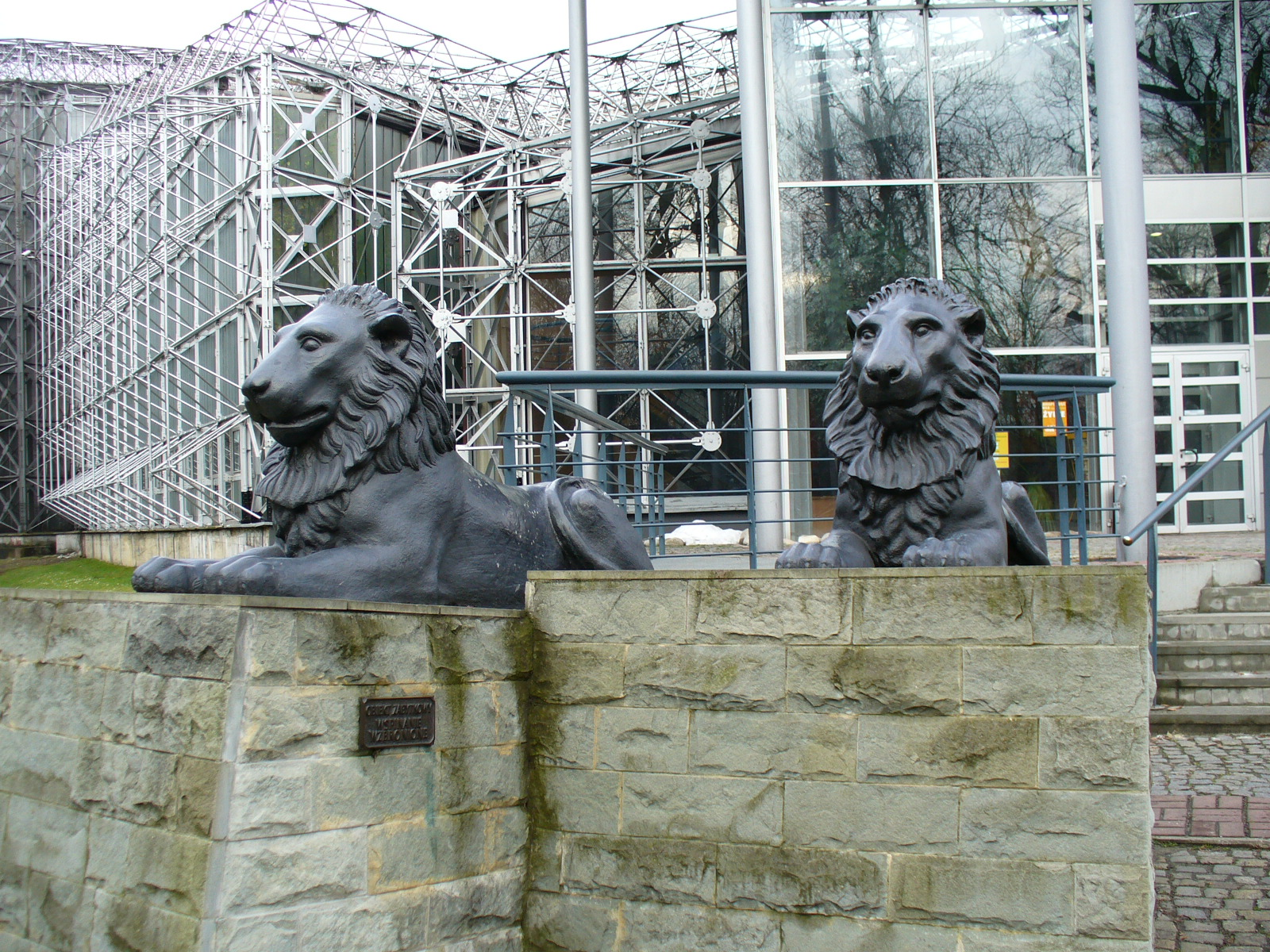 Gliwice (Gleiwitz/Silesia): Two lions by Johann Gottfried Schadow